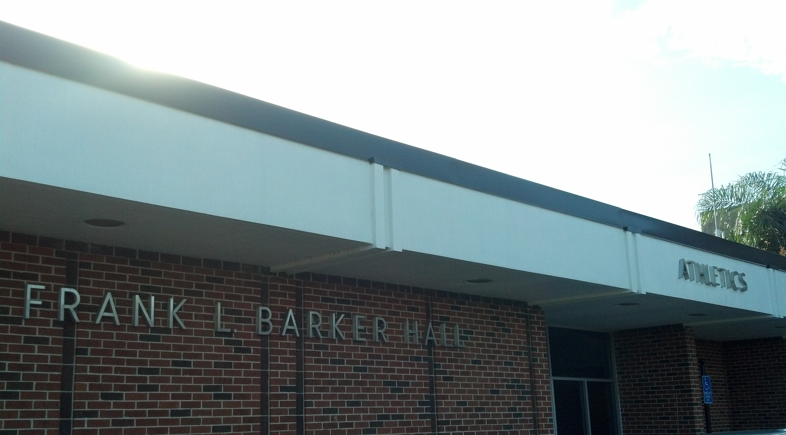 Frank L. Barker Athletic Building (Thibodaux, LA)